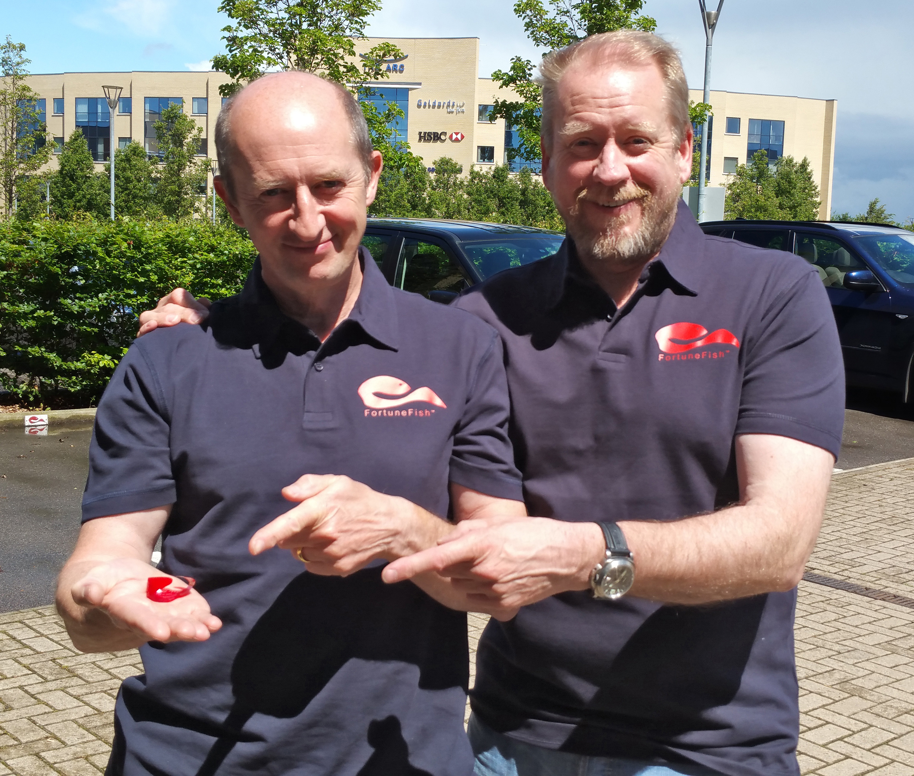 A picture of Tim and Chris Stamper outside their offices at FortuneFish.